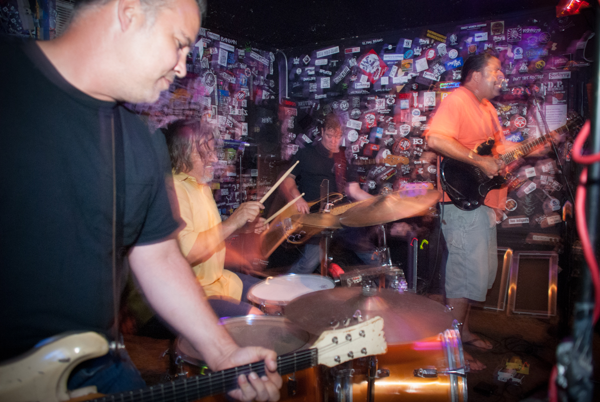 The Ziggens playing at the Doll Hut in Anaheim CA